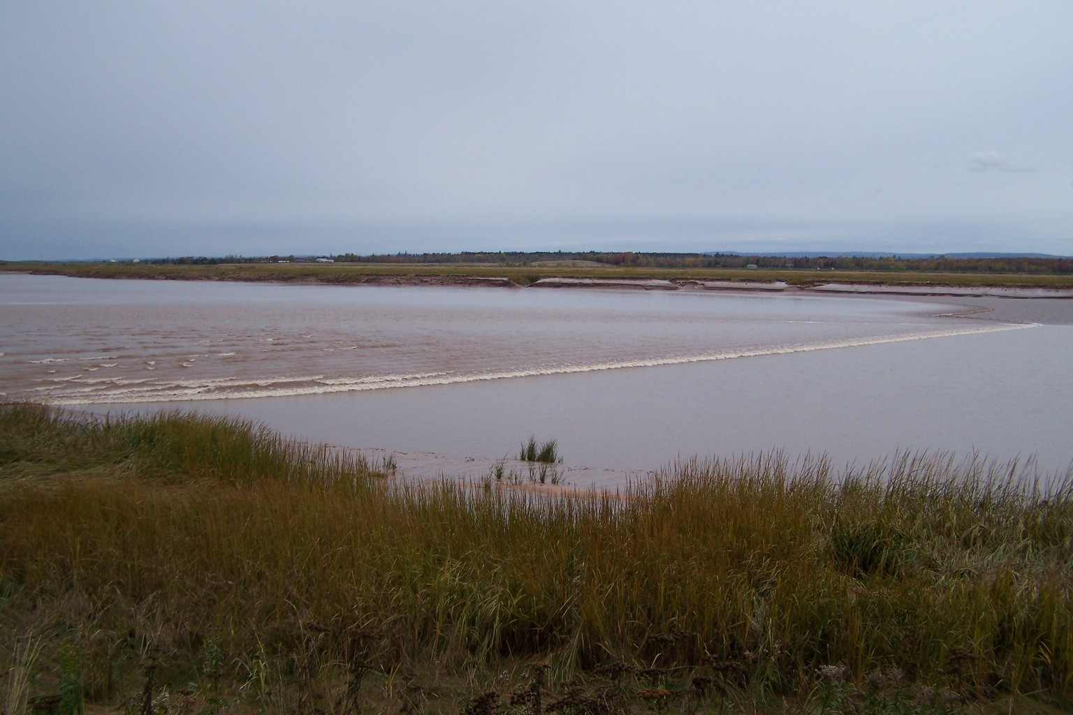 I missed the tidal bore in Qiantang River when I visited Hangzhou in 2007. This time I arrived well ahead of the tidal bore time and caught the noisy bore in action. Though not very impressive as I thought, it was still bigger than a ripple. You have to be there in person to appreciate its full beauty as the thundering noise could not be captured by the camera. The turbulence is visible as the still river surface was disturbed behind the bore head. It resembles waves reaching beaches. It is in fact a wave.